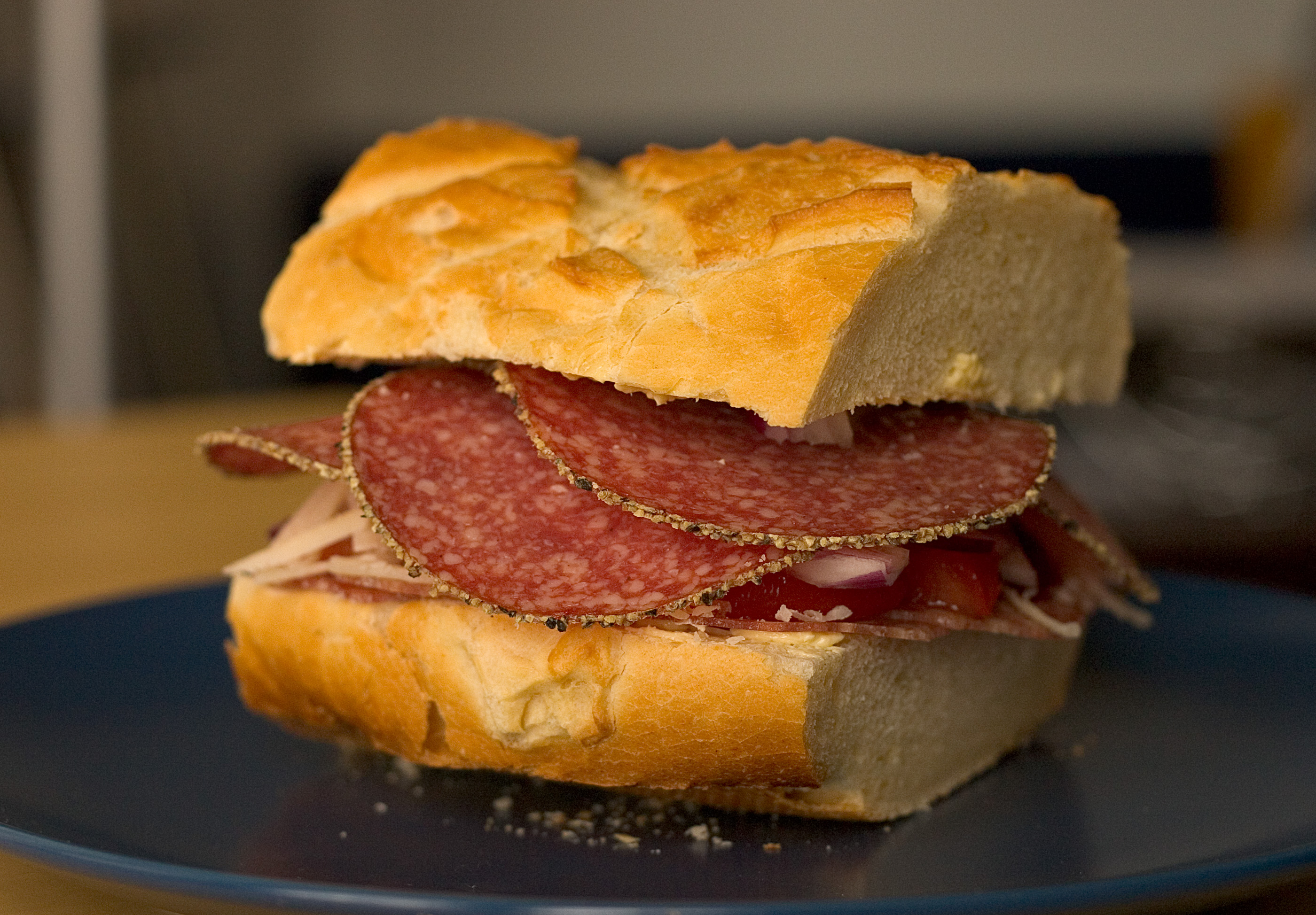 One of the advantages of working at home is that you get to make real sammiches for lunch.